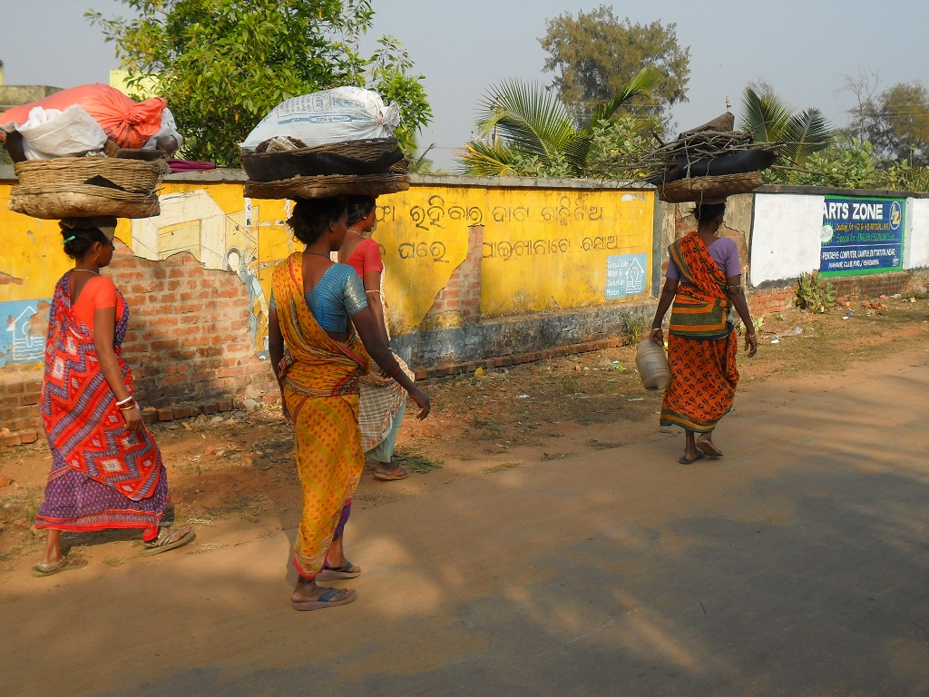 Women in Orissa, India